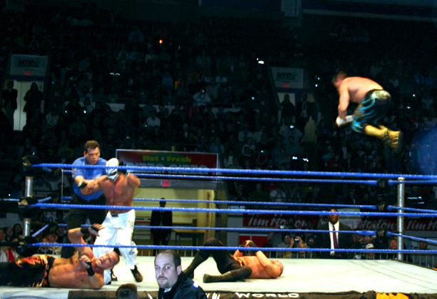 Eddie Guerrero gives a Frog Splash during his tag team match with Rey Mysterio against the Basham Brothers during a WWE house show held in Kitchener, Ontario, Canada on January 15, 2005.frogsplash